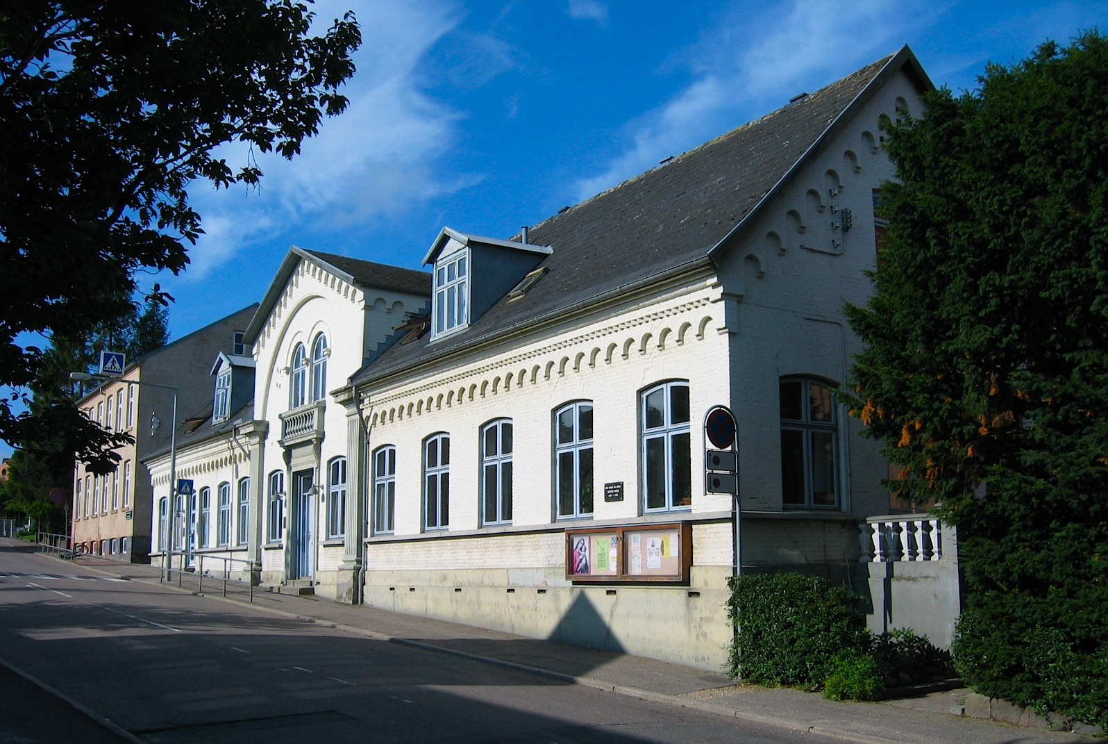 The house where Gustav Wied lived from 1897 to 1900, Roskilde, Denmark (nowadays the Roman Catholic rectory)